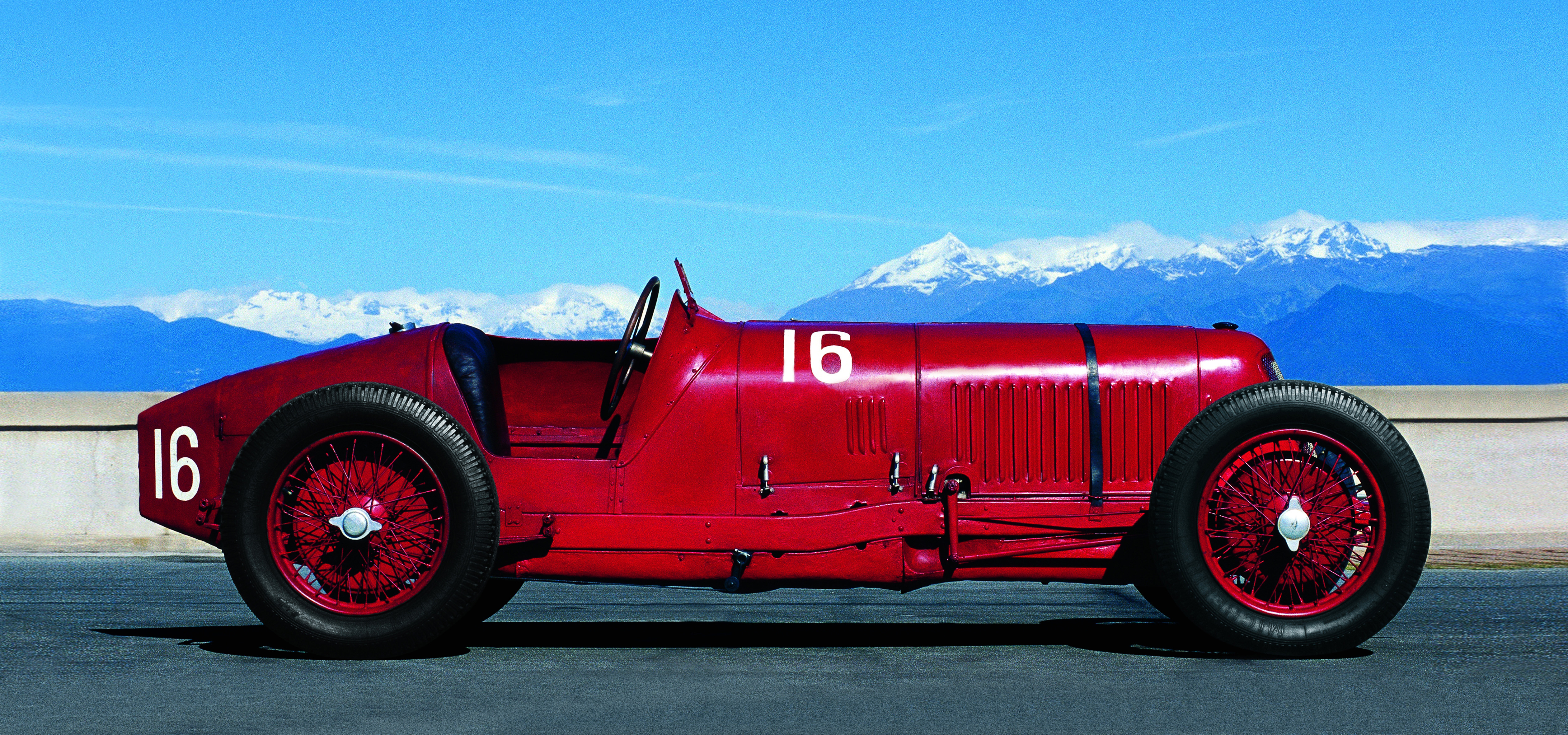 Maserati Tipo 26, probably the 1928 (or 1929) #16 Tipo 26B (2-litre straight-8 engine) that is exhibited in Automobile Museum of Turin Carlo Biscaretti and is considered the oldest Maserati on the planet.[1] Also exhibited at the Museo Enzo in Modena.[2] Picture taken from the Lingotto roof in Torino, showing the Alps in the background. In 2001 on loan at the Museo dell'Automobile "Luigi Bonfanti" at Romano D'Ezzelino near Vicenza.[3]